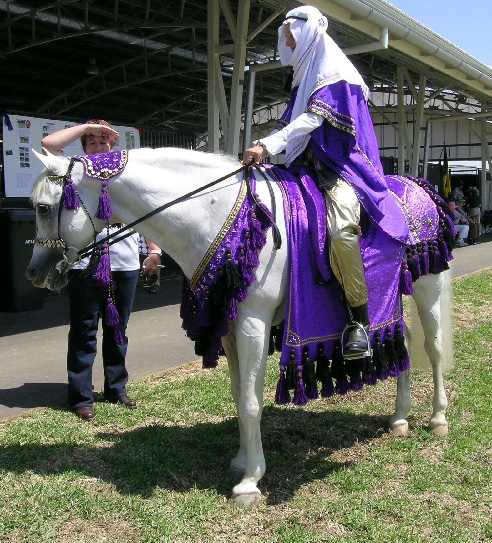 Newbridge Hesaab, a 28 year old Arabian stallion turned out in "native" costume for the official opening of AELEC, Tamworth, NSW.